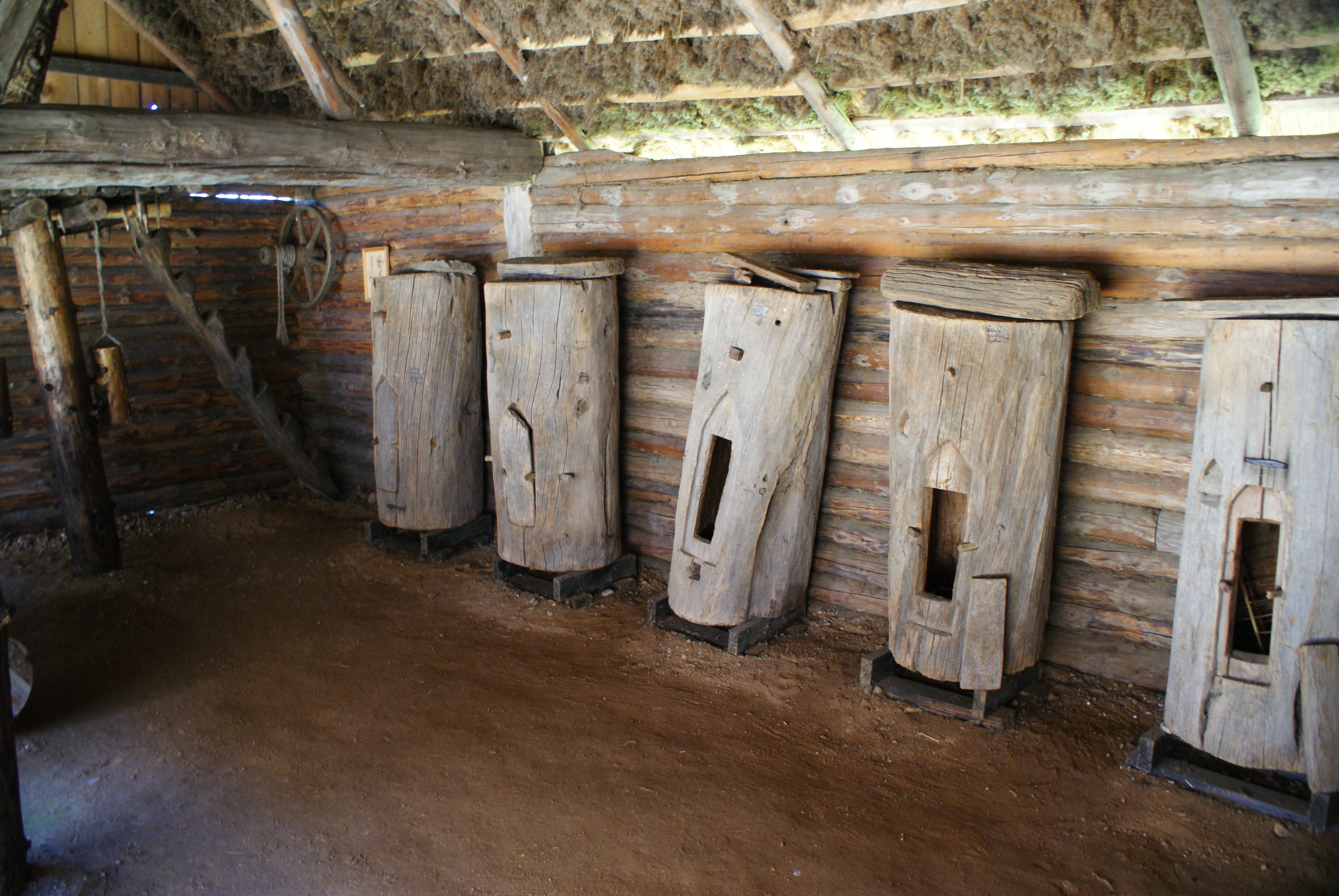 Bee-tree in State museum of folk architecture and life